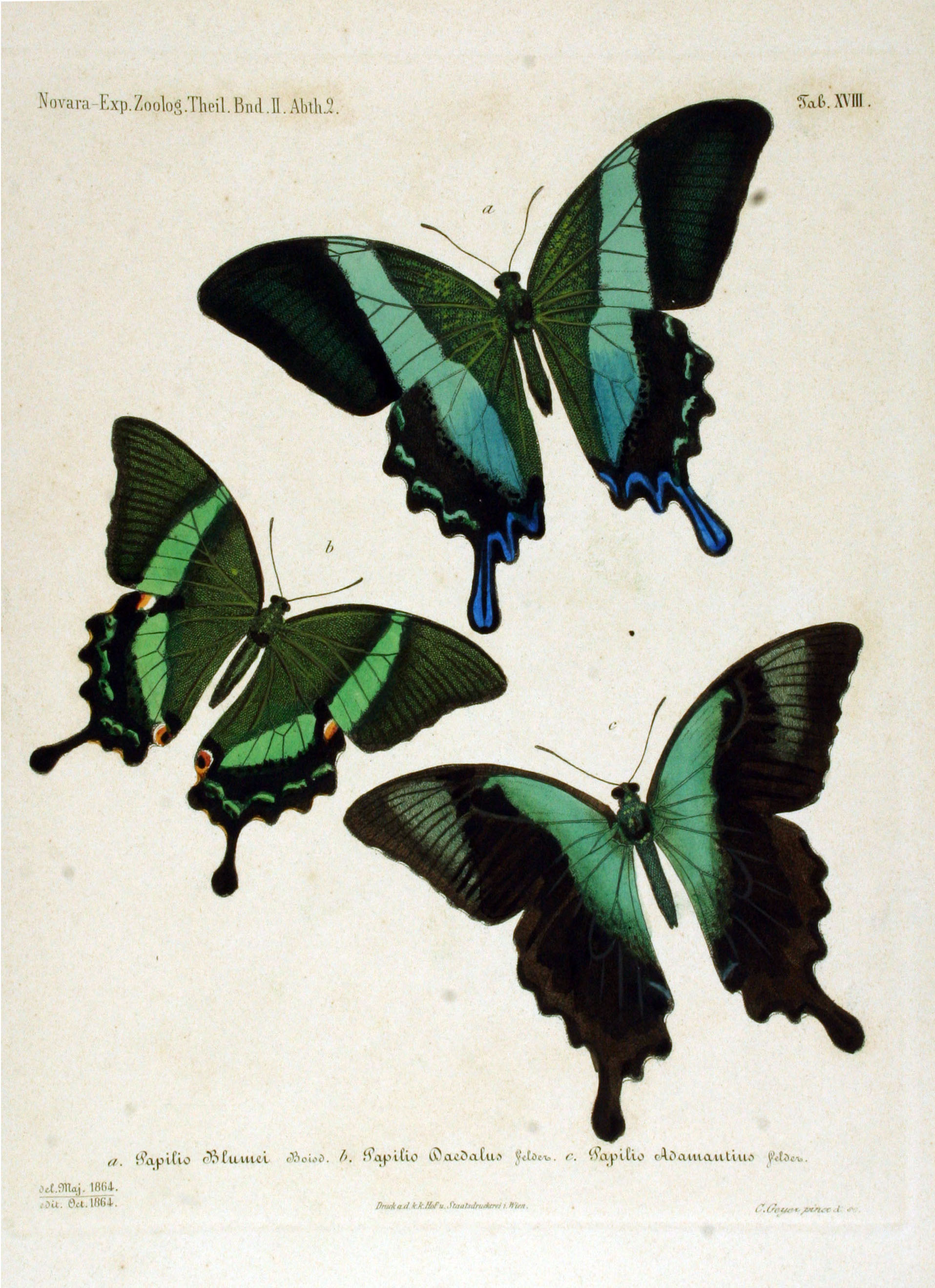 Reise der Österreichischen Fregatte Novara um die Erde in den Jahren 1857, 1858, 1859 unter den Befehlen des Commodore B. von Wüllerstorf-Urbair. (1864) Zoologischer Theil. 2. Band. Zweite Abteilung: Lepidoptera. Atlas.Tafel XVIII. Papilio blumei; Papilio daedalus (now a subspecies of Papilio palinurus Fabricius, 1787); Papilio adamantius (now a subpecies of Papilio peranthus)